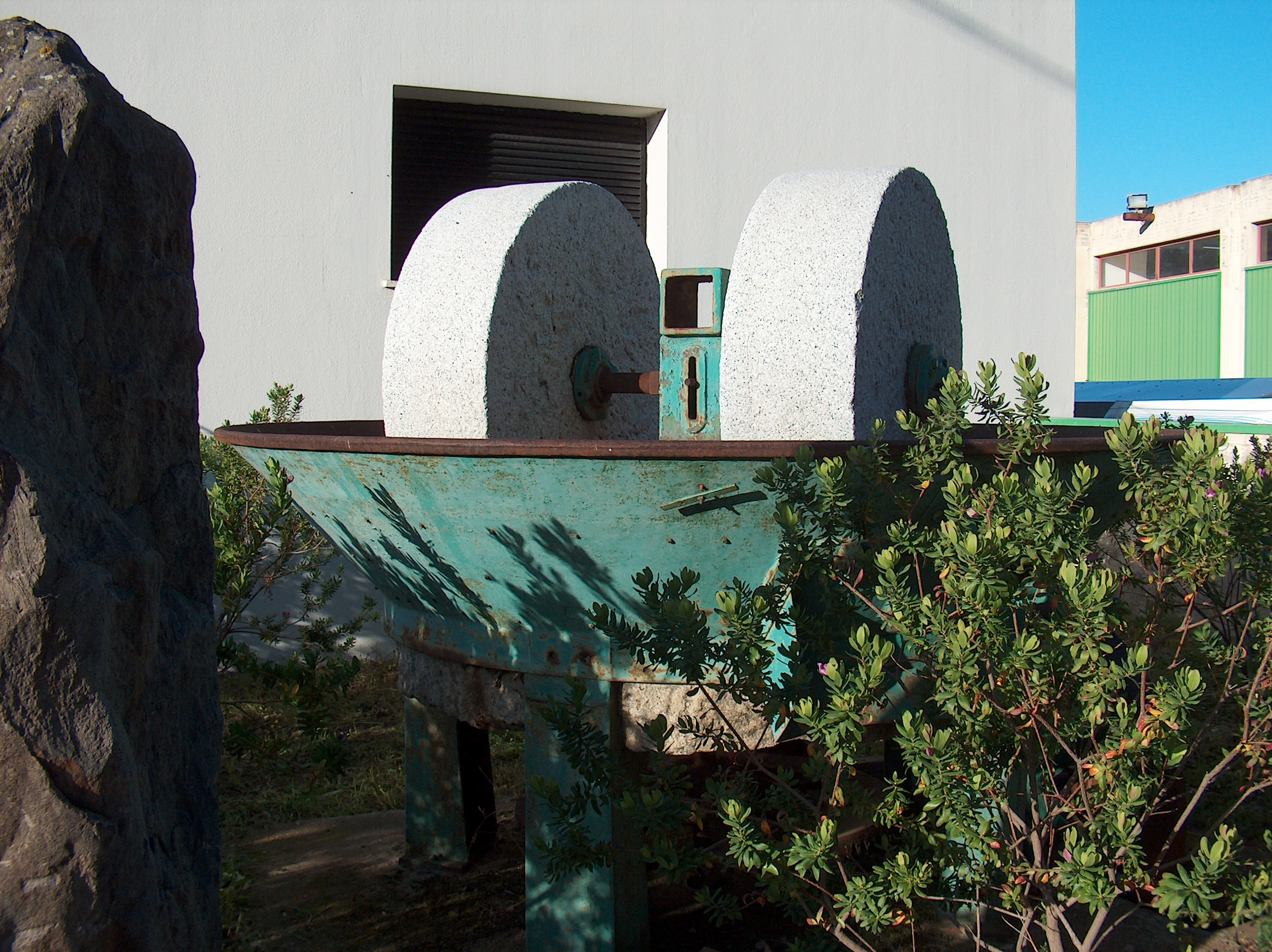 An old millstone for the milling of the olive fruits in exposition